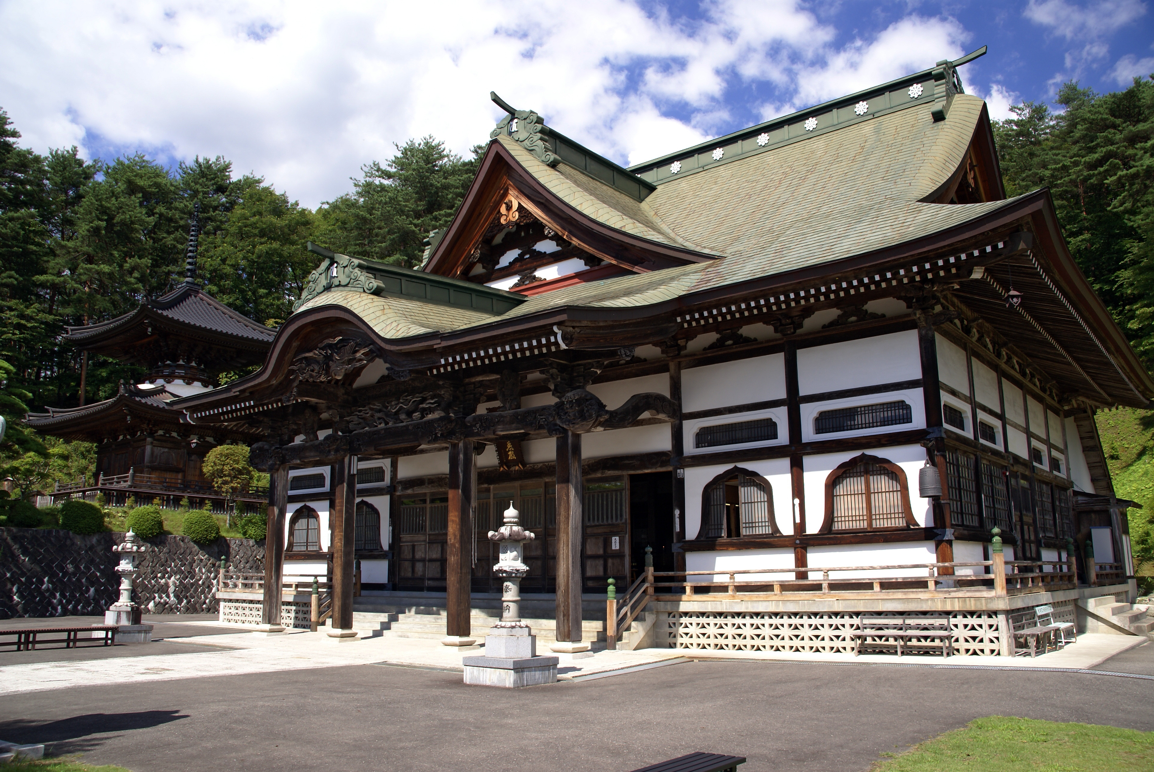 Fukusenji in Tono, Iwate prefecture, Japan